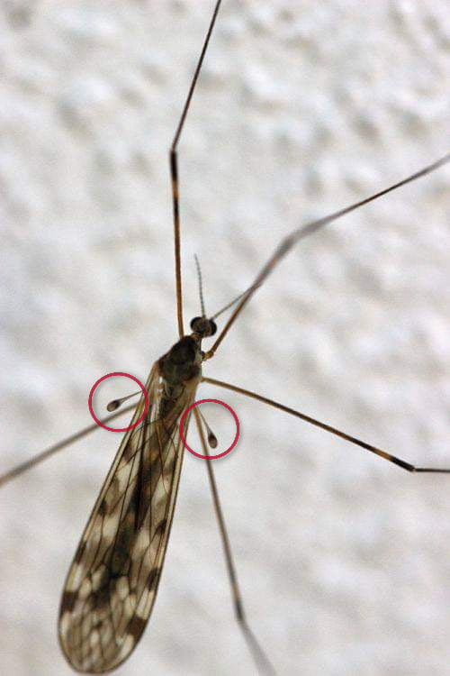 The halteres detail of the Diptera Limoniidae; probably of the species Metalimnobia quadrimaculata (Linnaeus, 1761) (determination author: Jan Máca). Photograph taken in Přírodní Park Džbán, Czech Republic (May 31, 2013); by Ivo Antušek.